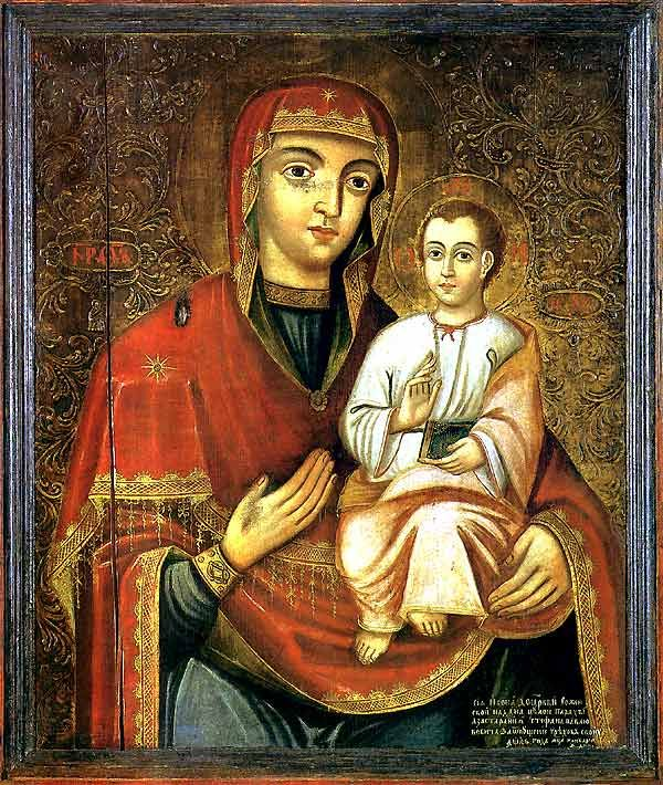 Artist - Markianovich. The Virgin Hodigitria. The Resurrestion (a two-side icon). 1766.